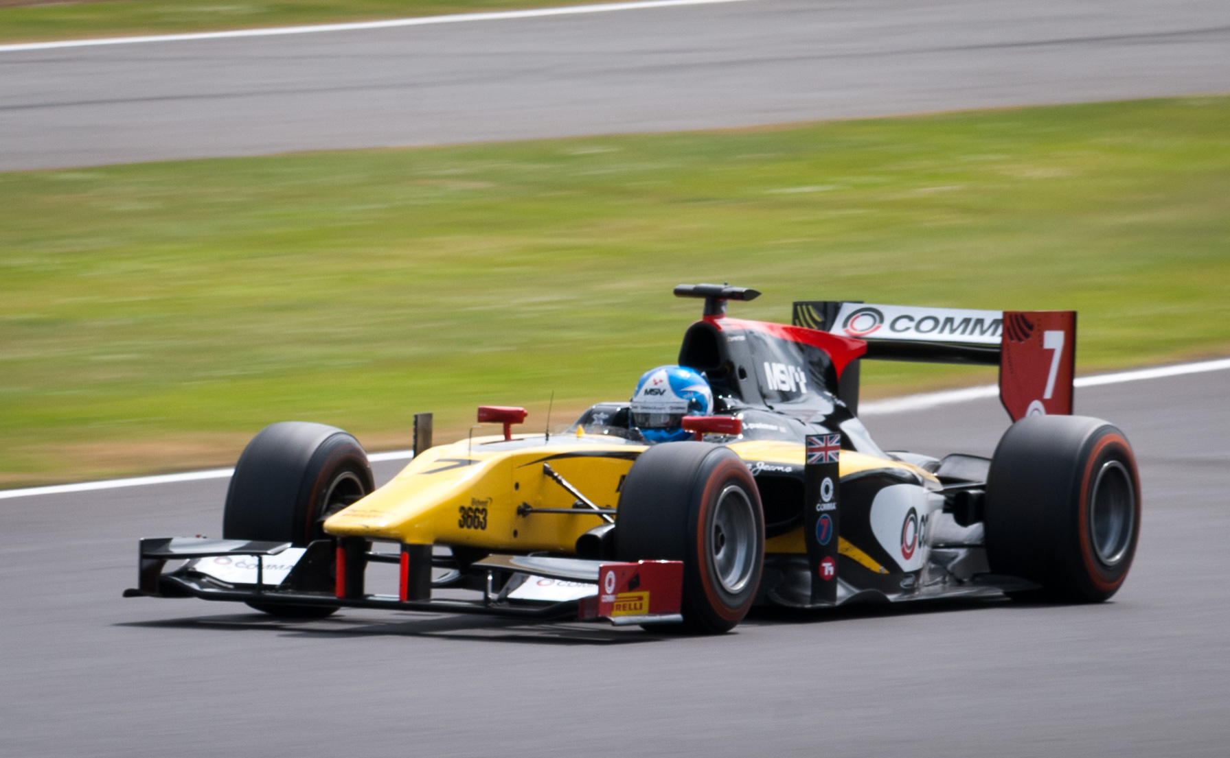 Jolyon Palmer driving for DAMS at Silverstone. Round 5 of the 2014 GP2 Series Championship.